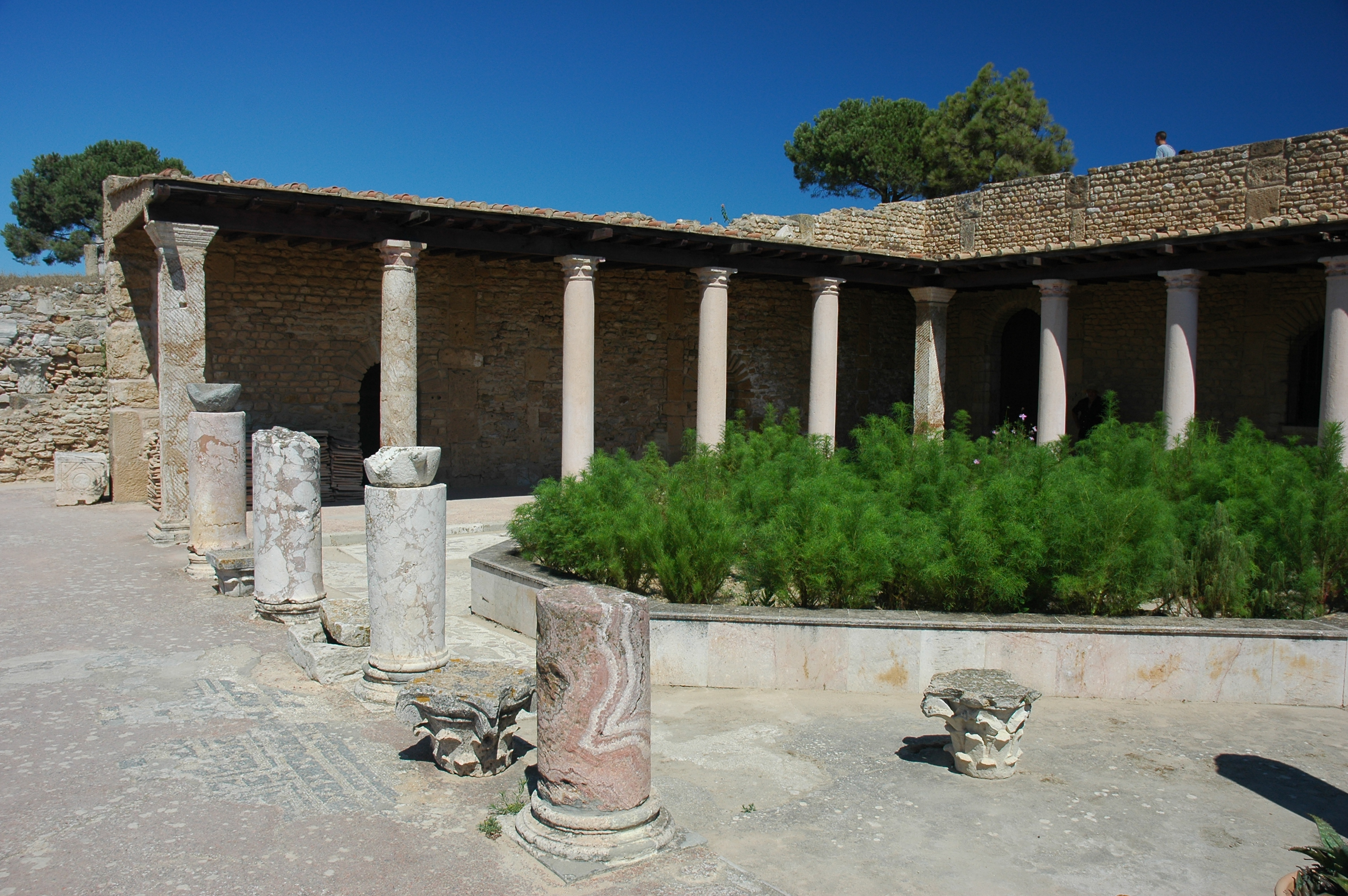 Tunisie Carthage Photographie prise par Patrick GIRAUD